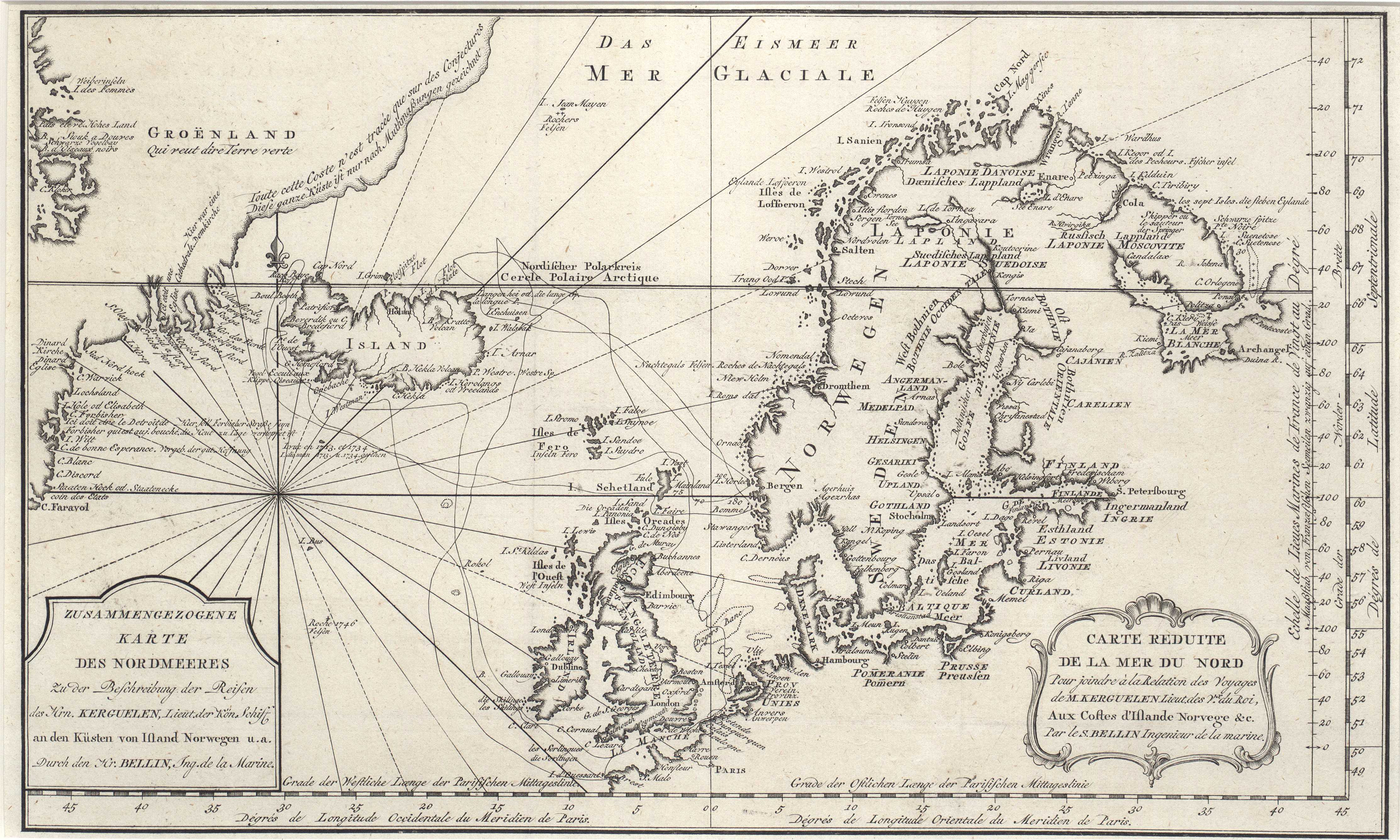 Map of the North Atlantic Ocean, with the North Sea — showing the naval journeys made by Yves Joseph de Kerguelen de Trémarec in 1767 and 1768. First published in French in 1772, in later years in English and German as well.